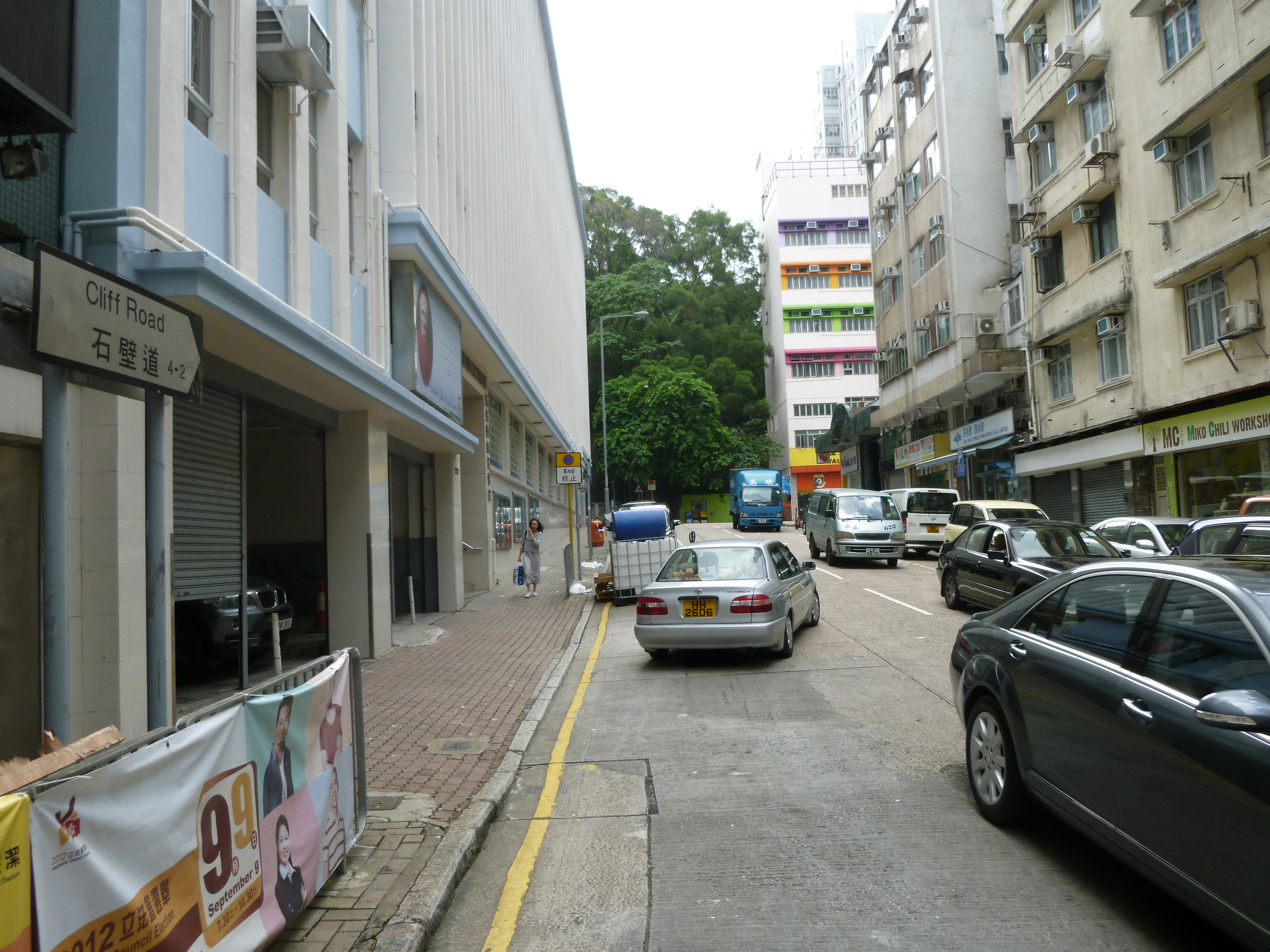 Cliff Road (Yau Ma Tei, Kowloon, Hong Kong) 中文（香港）: 石壁道 (香港九龍油麻地)